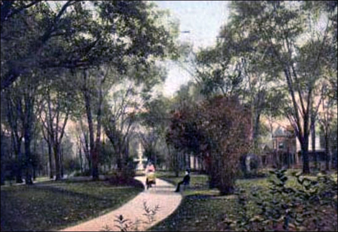 Forman Square in Syracuse, New York about 1900 - Later renamed to Forman Park